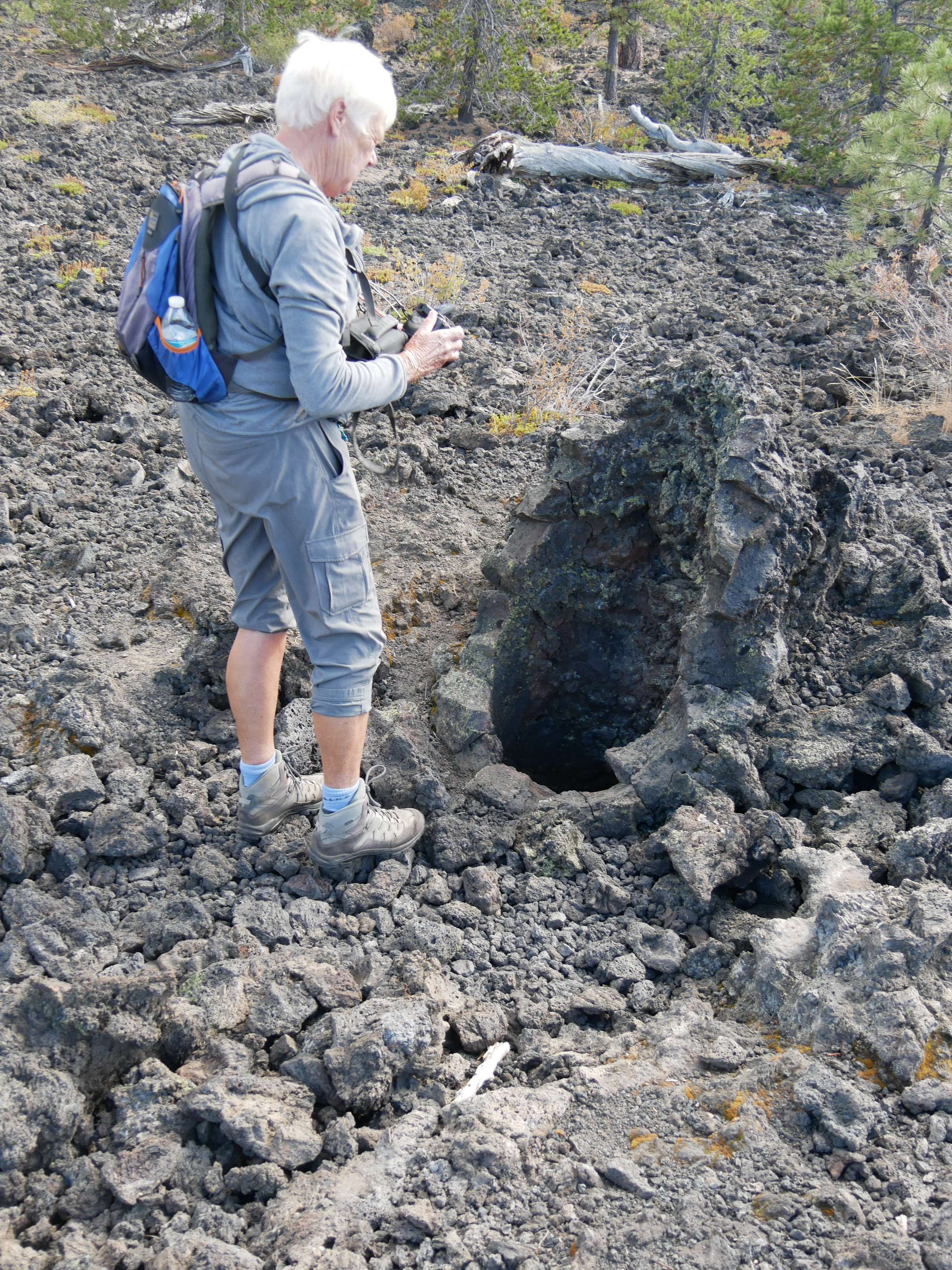 Lava covered (truncks of) trees. The trees disappeared, the moulds remained.